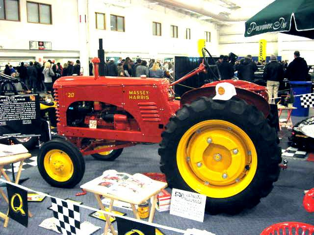 '48 Massey-Harris 20, same as '41 M-H 81, celebrating M-H's 100h anniversary. Taken at local car show